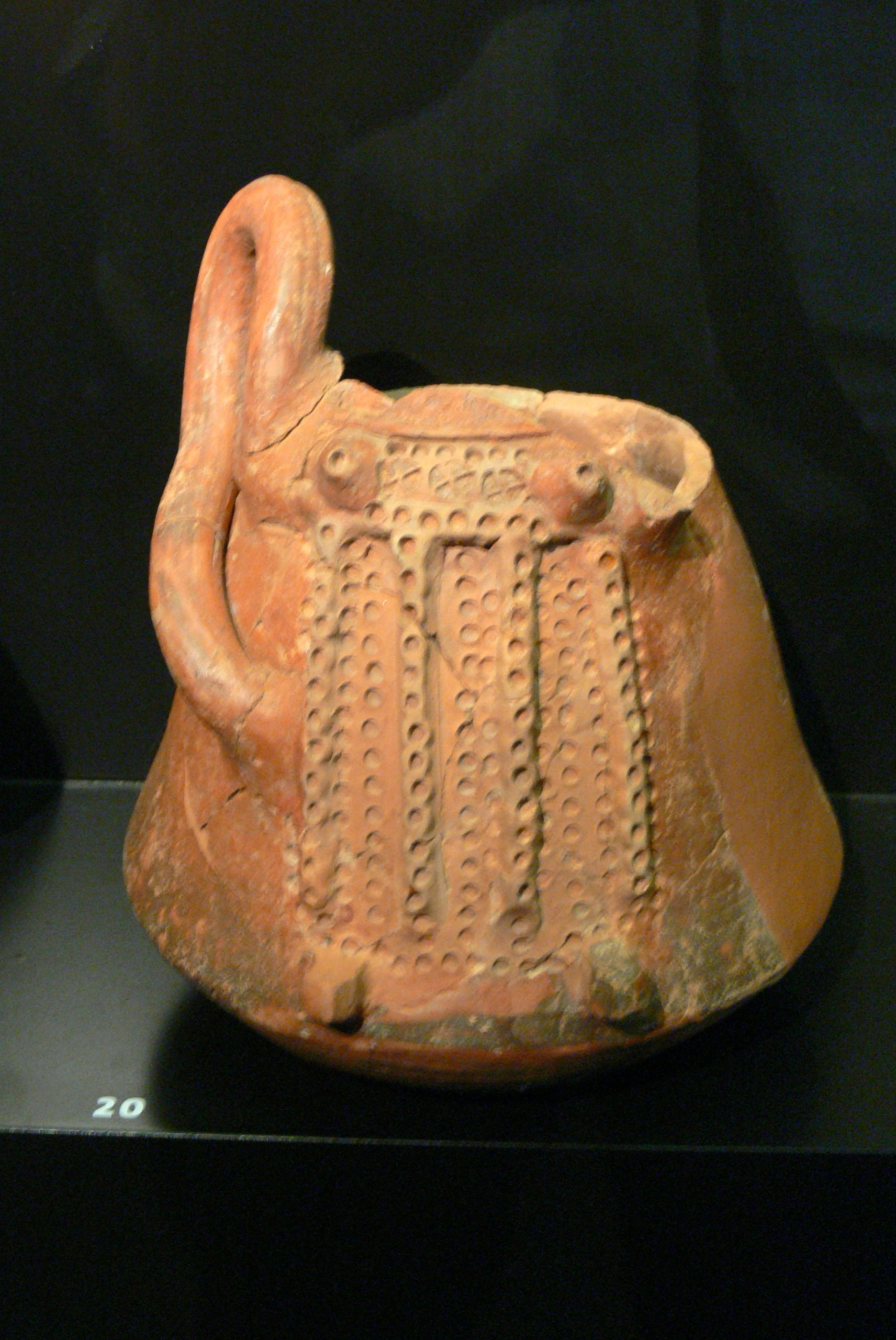 Museum Carnuntinum ( Lower Austria ). Anthropomorphic vessel showing a woman in noric attire ( 2nd century ).